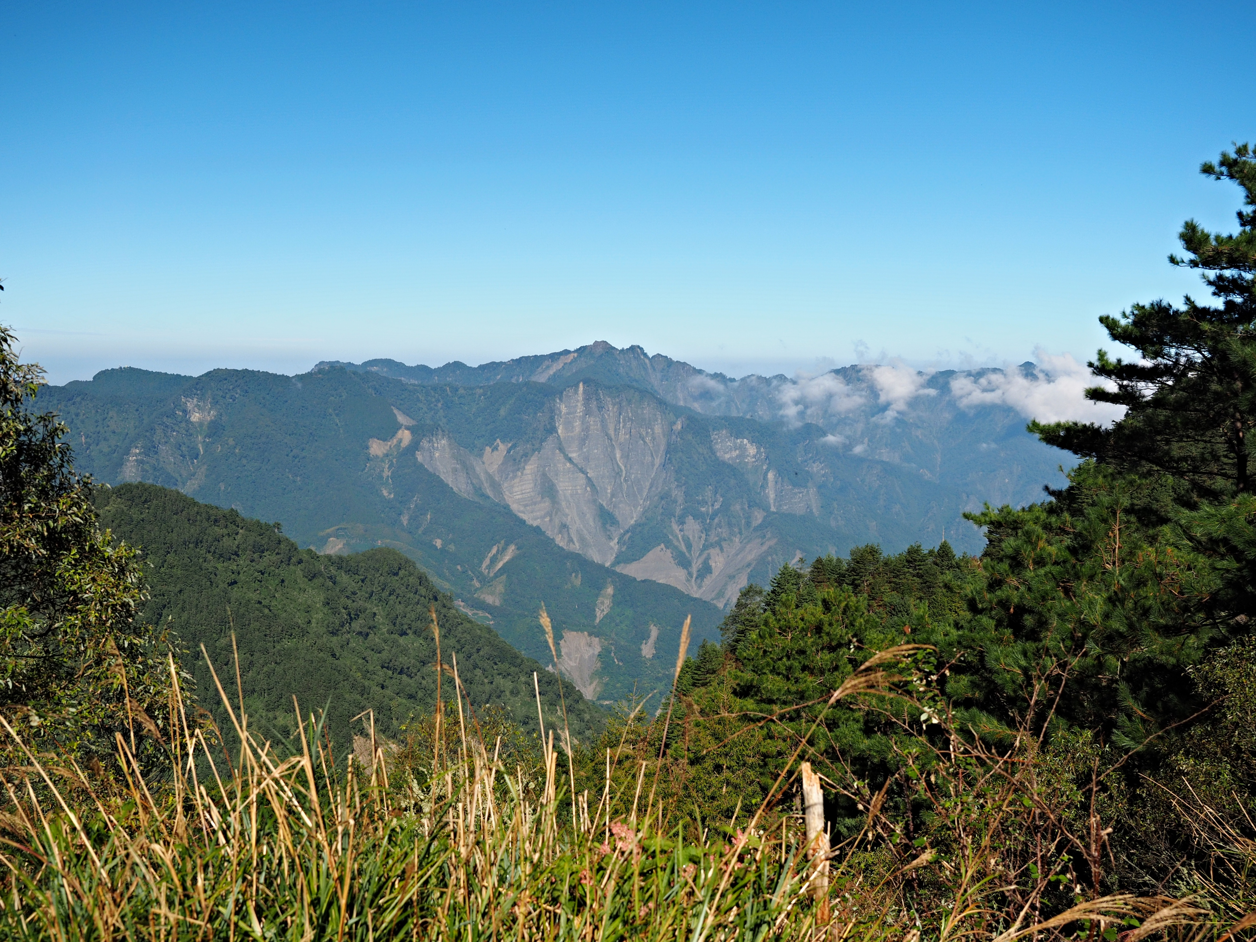 Mount Data in the far distance.